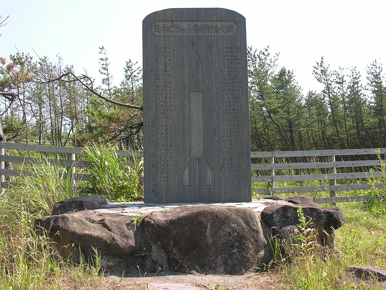 Memorial monument of Akita Rocket Range, Japan's first rocket launch site (Michikawa, Yurihonjo City, Akita Prefecture)